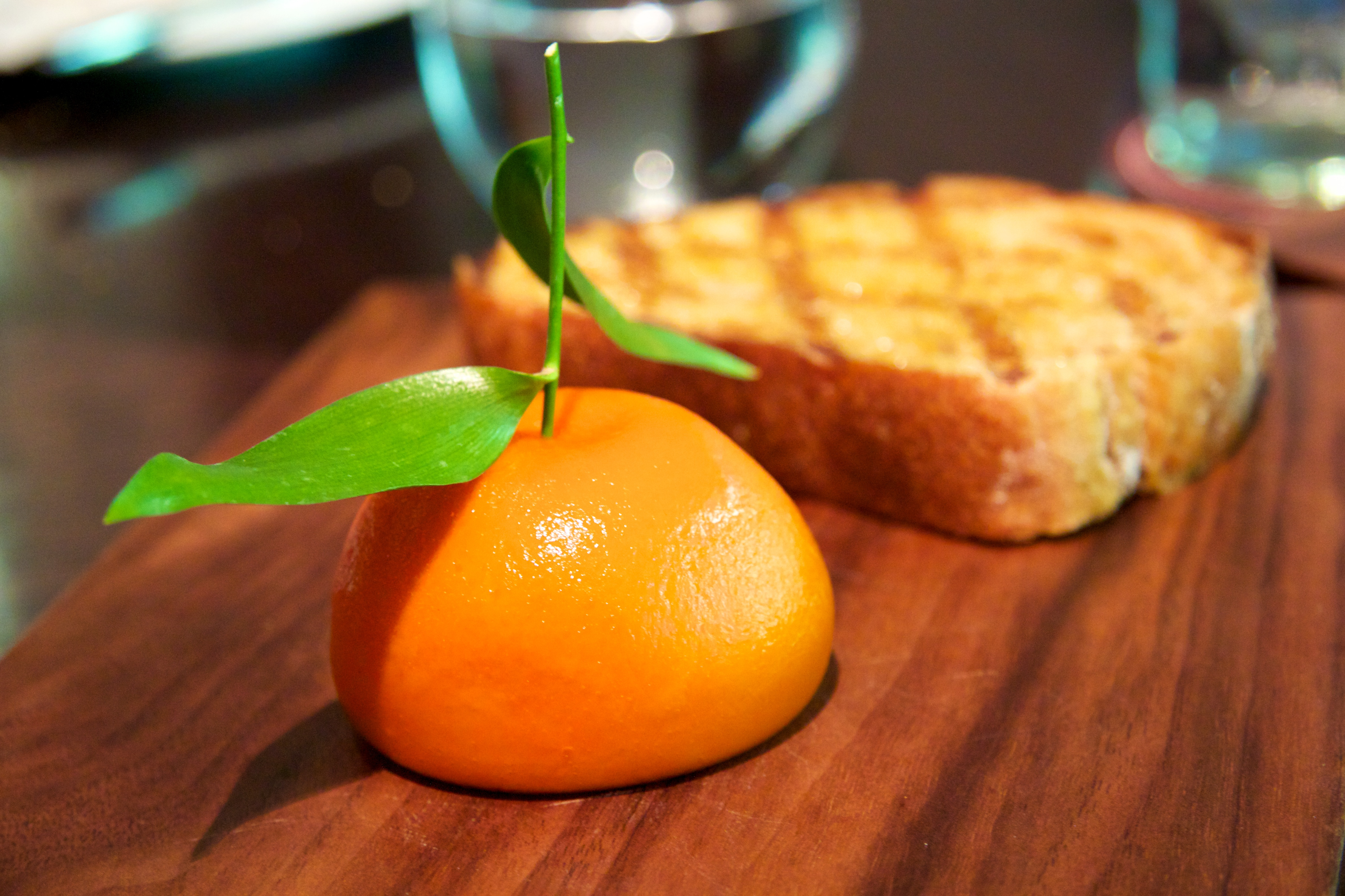 Dinner by Heston Blumenthal - Mandarin Oriental, Hyde Park, London